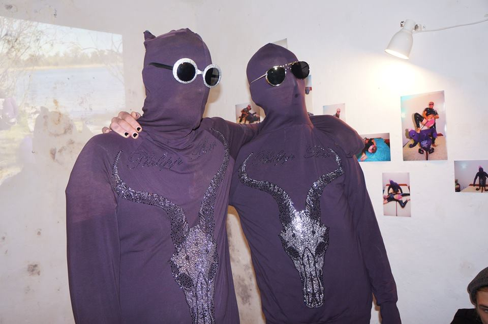 Презентація проекту "Звездочет" галерея Детенпула 2017